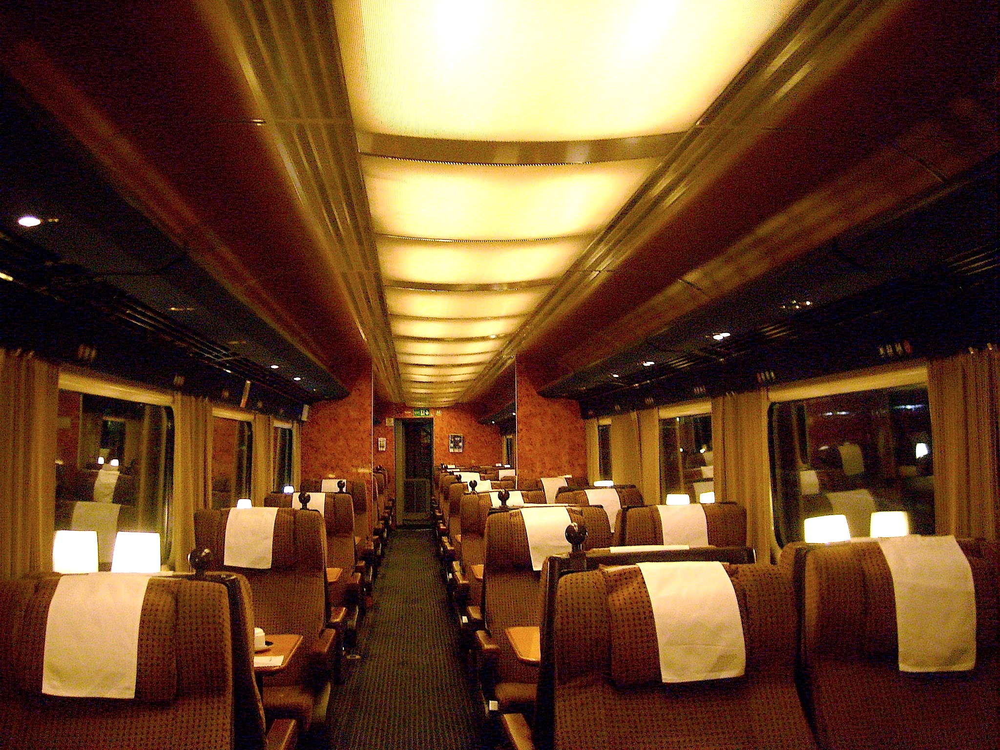 The refurbished First Class interior of a National Express East Coast Mark 3 Trailer First vehicle